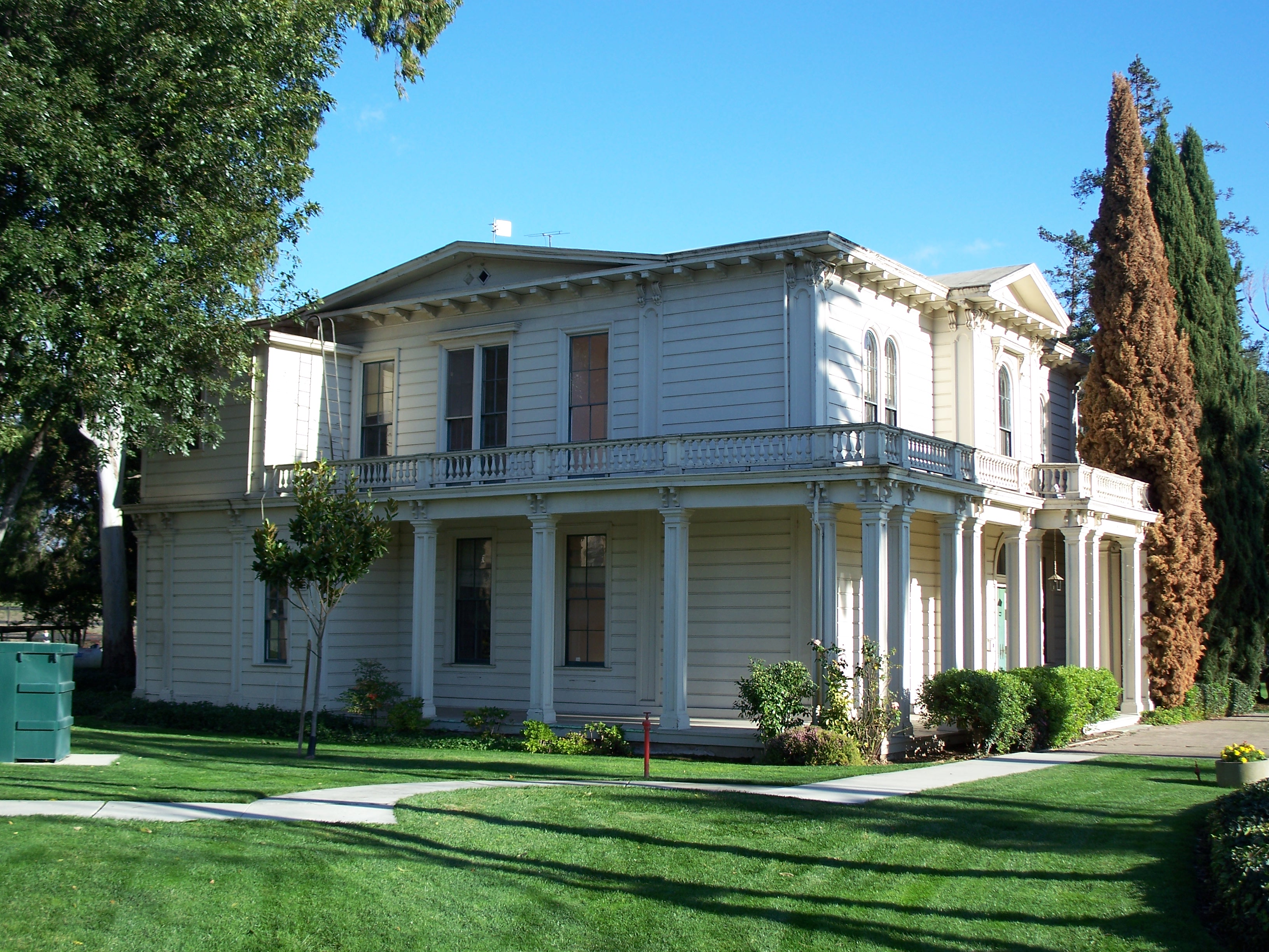 James Lick mansion. 554 Mansion Park Drive. Santa Clara, California, USA More details about subject